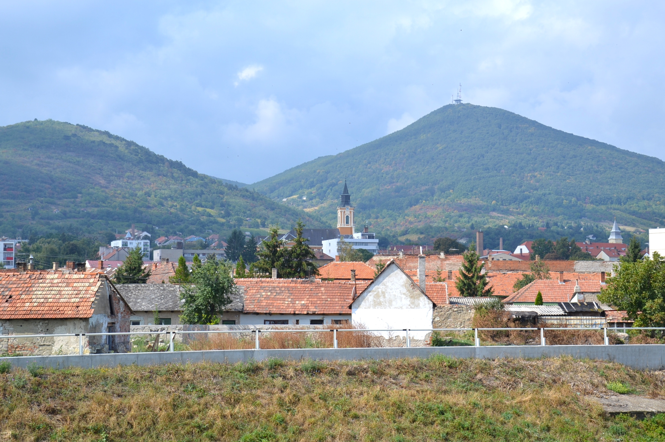 Sátoraljaújhely, Hungary